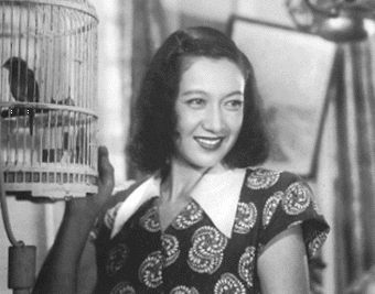 Actress Setsuko Hara (1920– ) in the motion picture A Ball at the Anjo House (1947).